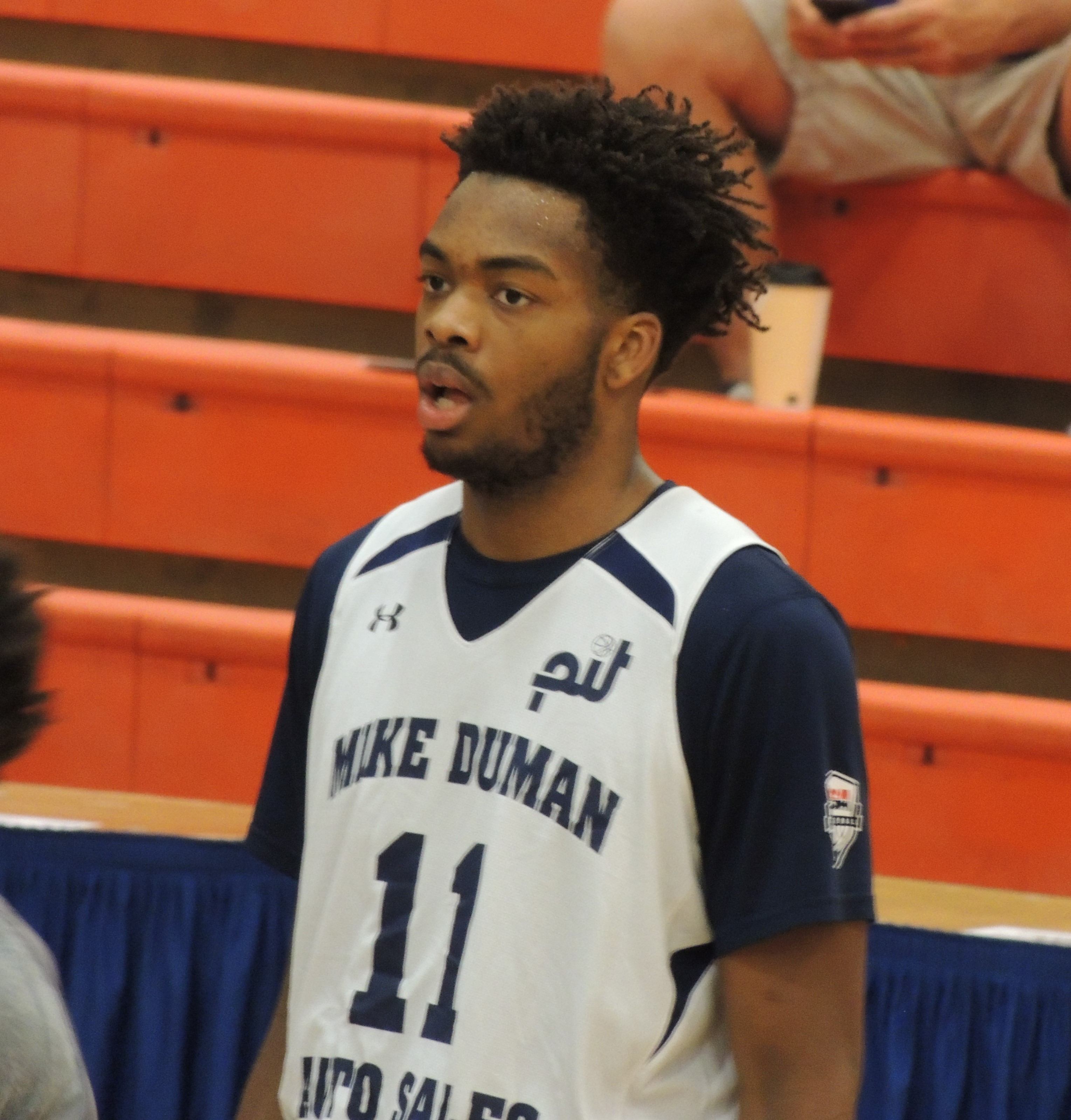 American basketball player Cameron Young of Quinnipiac University competes at the 2019 Portsmouth Invitational Tournament